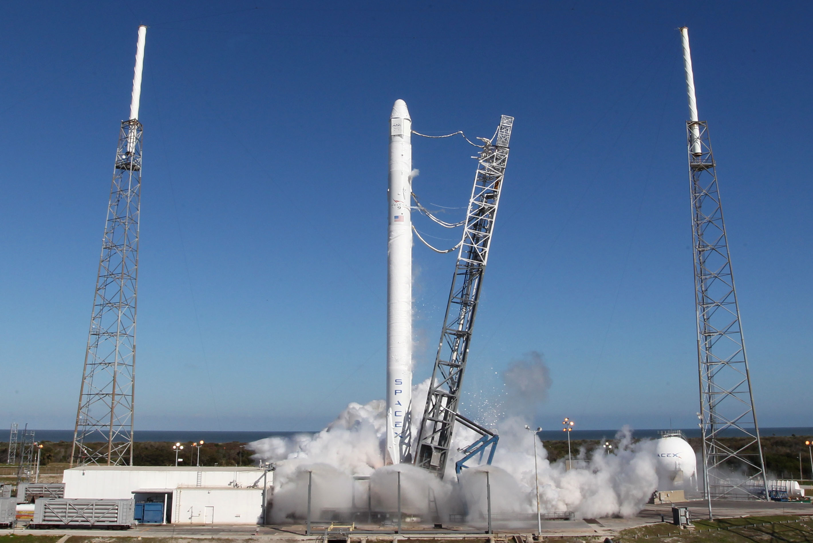 SpaceX’s Falcon 9 rocket and Dragon spacecraft launched from Launch Complex 40 at the Cape Canaveral Air Force Station, Florida, for their third official Commercial Resupply (CRS) mission to the orbiting lab on April 18, 2014. Dragon returned to Earth with a parachute-assisted splashdown off the coast of southern California on May 14, 2014. Dragon is the only operational spacecraft capable of returning a significant amount of supplies back to Earth, including experiments.